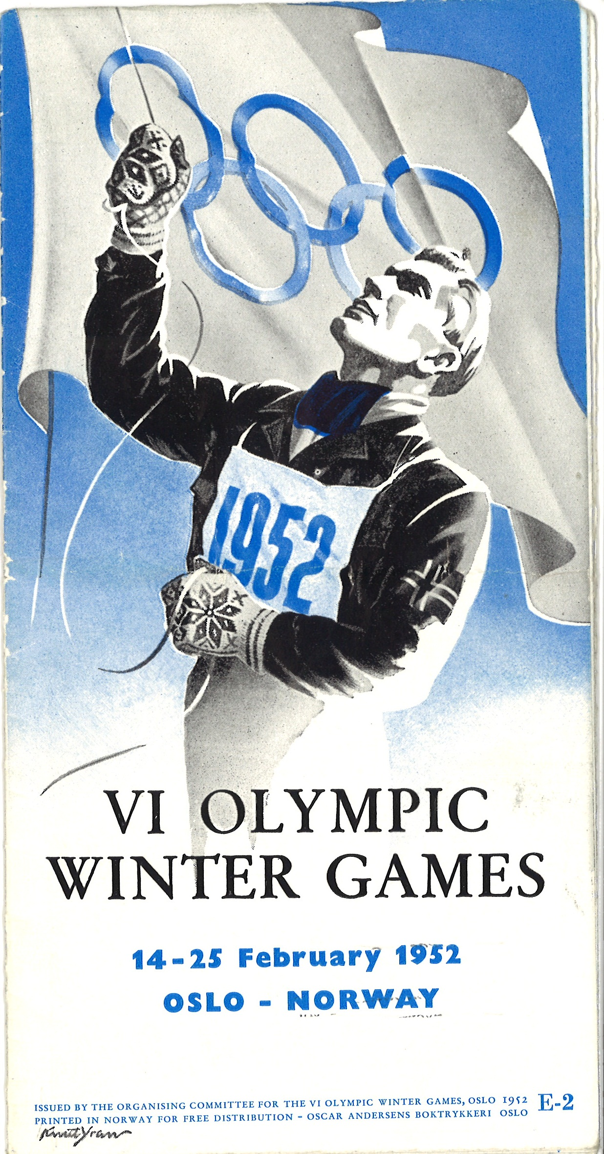 2.19.124 488 Dutch Olympic Committee (NOC), 1912-1993, Detail from inventory number 488, Olympic Games 1952 in Oslo. Please help us gain more knowledge on the content of our collection by simply adding a comment with information. If you do not wish to log in, you can write an e-mail to